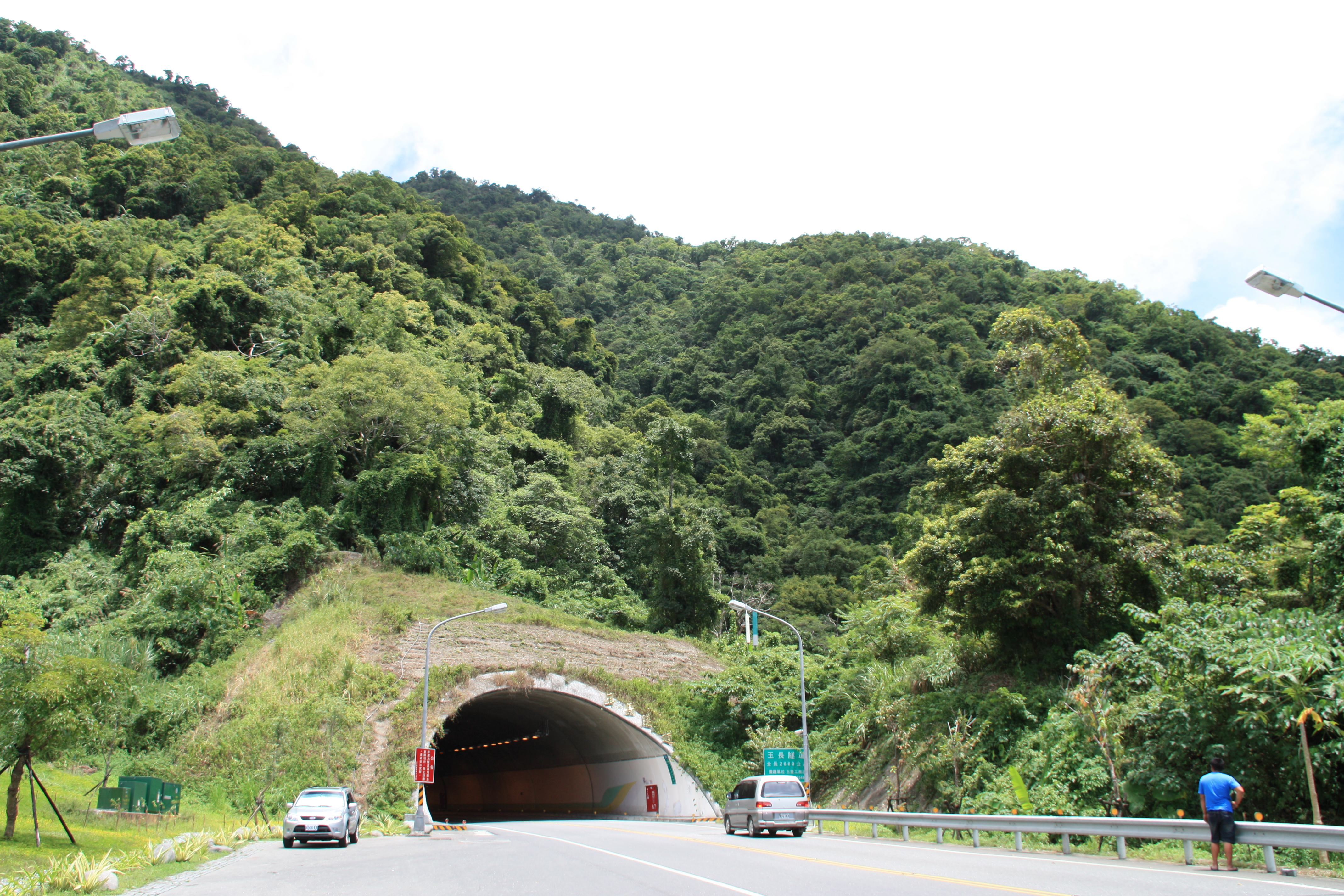 Taitung County Changbin Township YùZhăng Rd (HWY 30) Rest area at east side of the tunnel to FùLǐ Entry of the tunnel Map is out of date. Position and heading will be adapted, when actualized map is available. Lord Koxinga (talk) 12:41, 1 May 2013 (UTC)